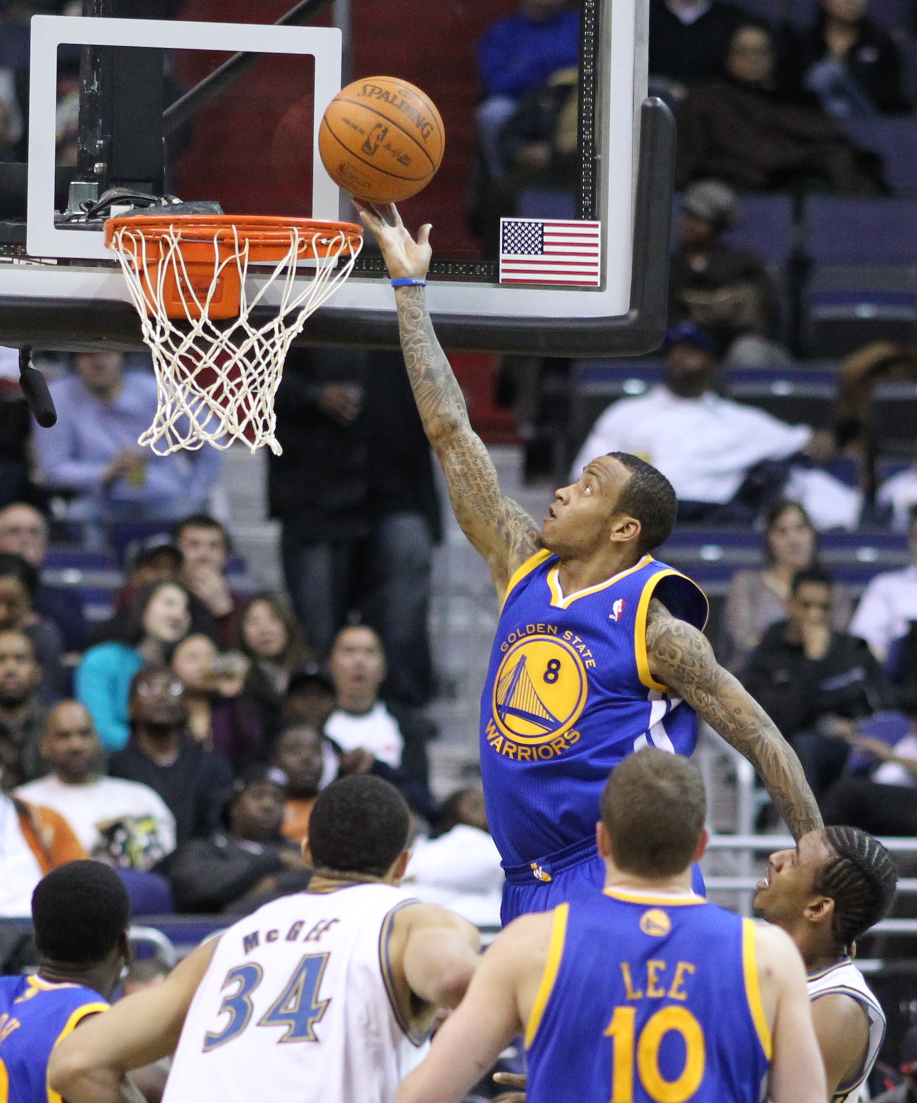 Wizards v/s Warriors, Monta Ellis